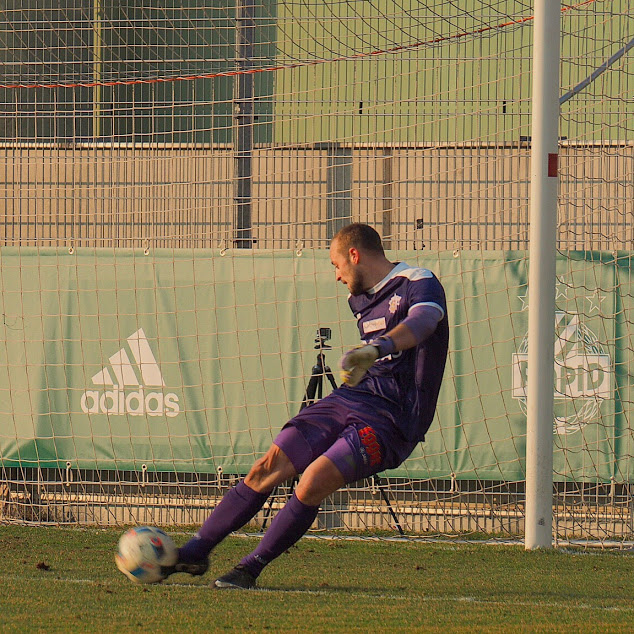 The photo shows Lorenz Höbarth, goalkeeper of SKN St. Pölten II.